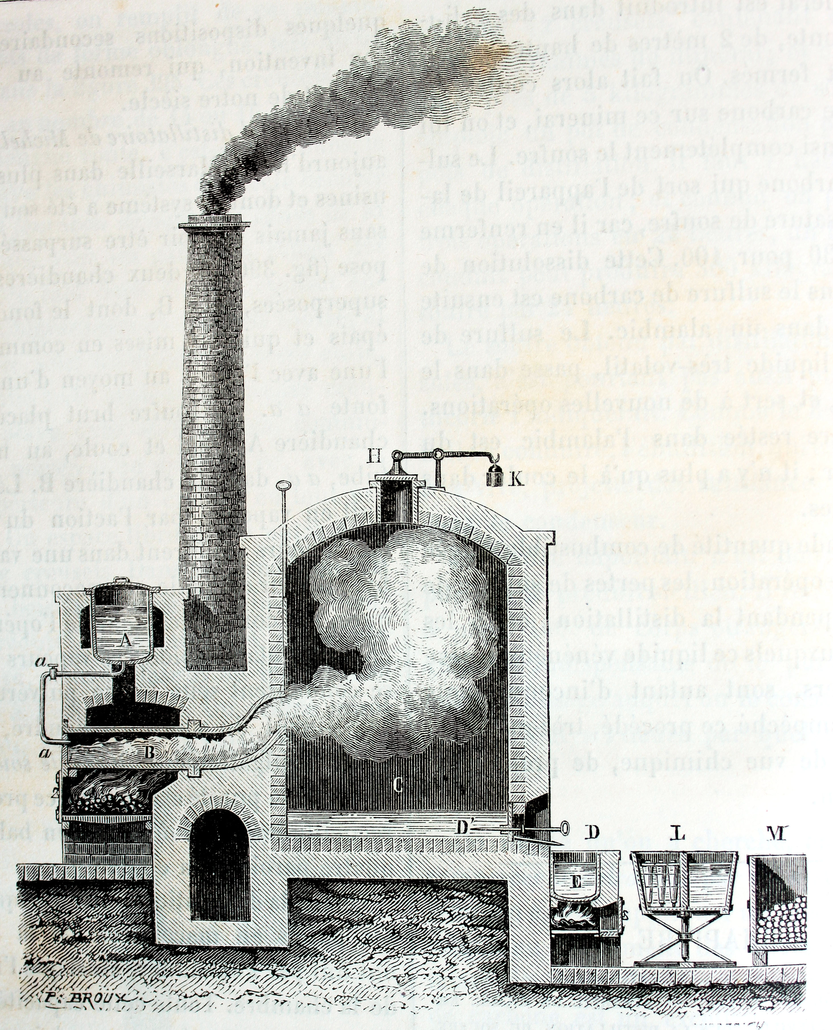 "Michel de Marseille's apparatus for the distillation of crude sulphur."